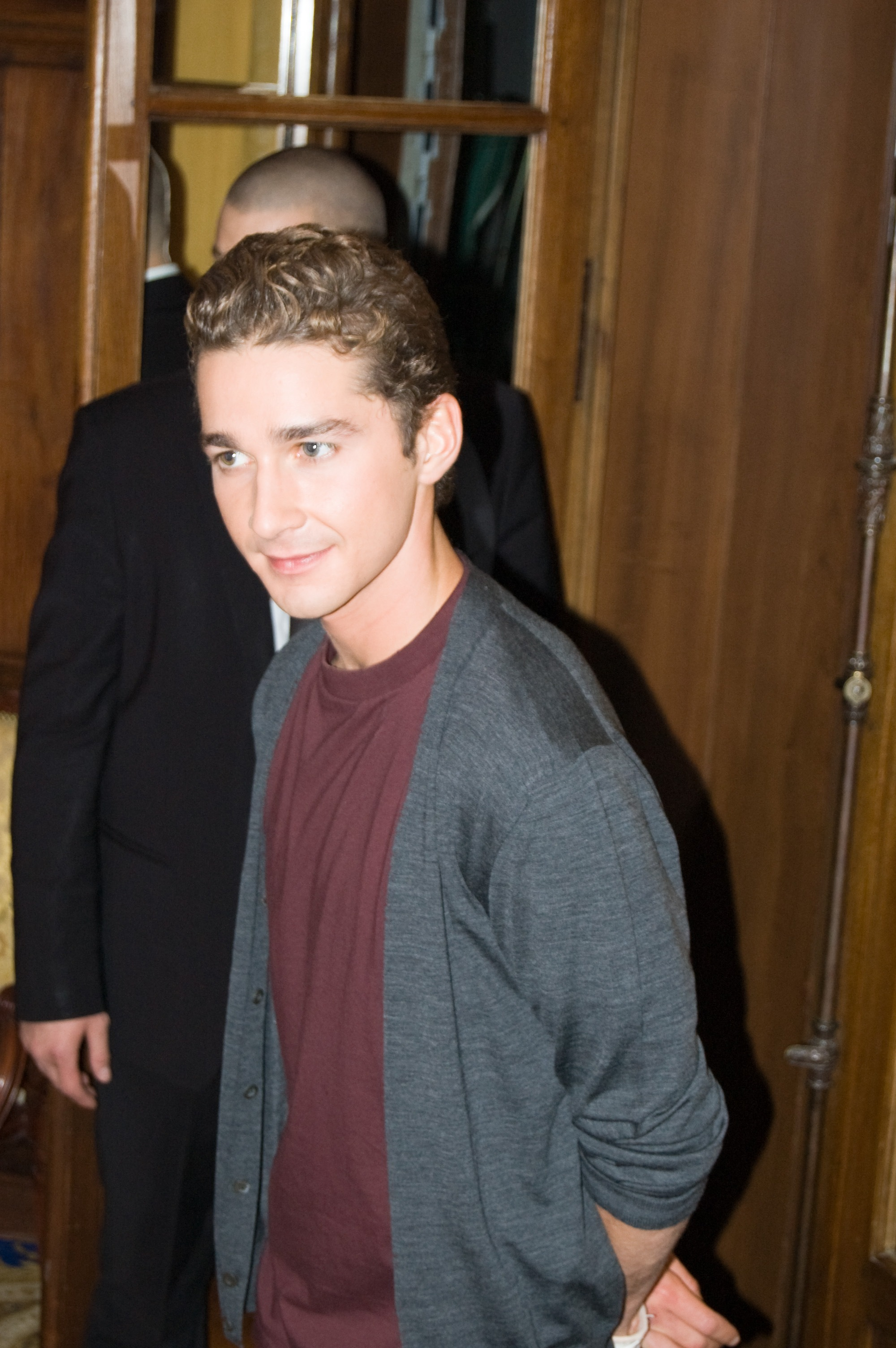 Shia LaBeouf posing at the Transformers: Revenge of the Fallen press conference in Paris